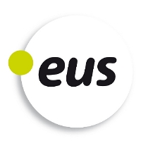 Logo of PuntuEus initiative